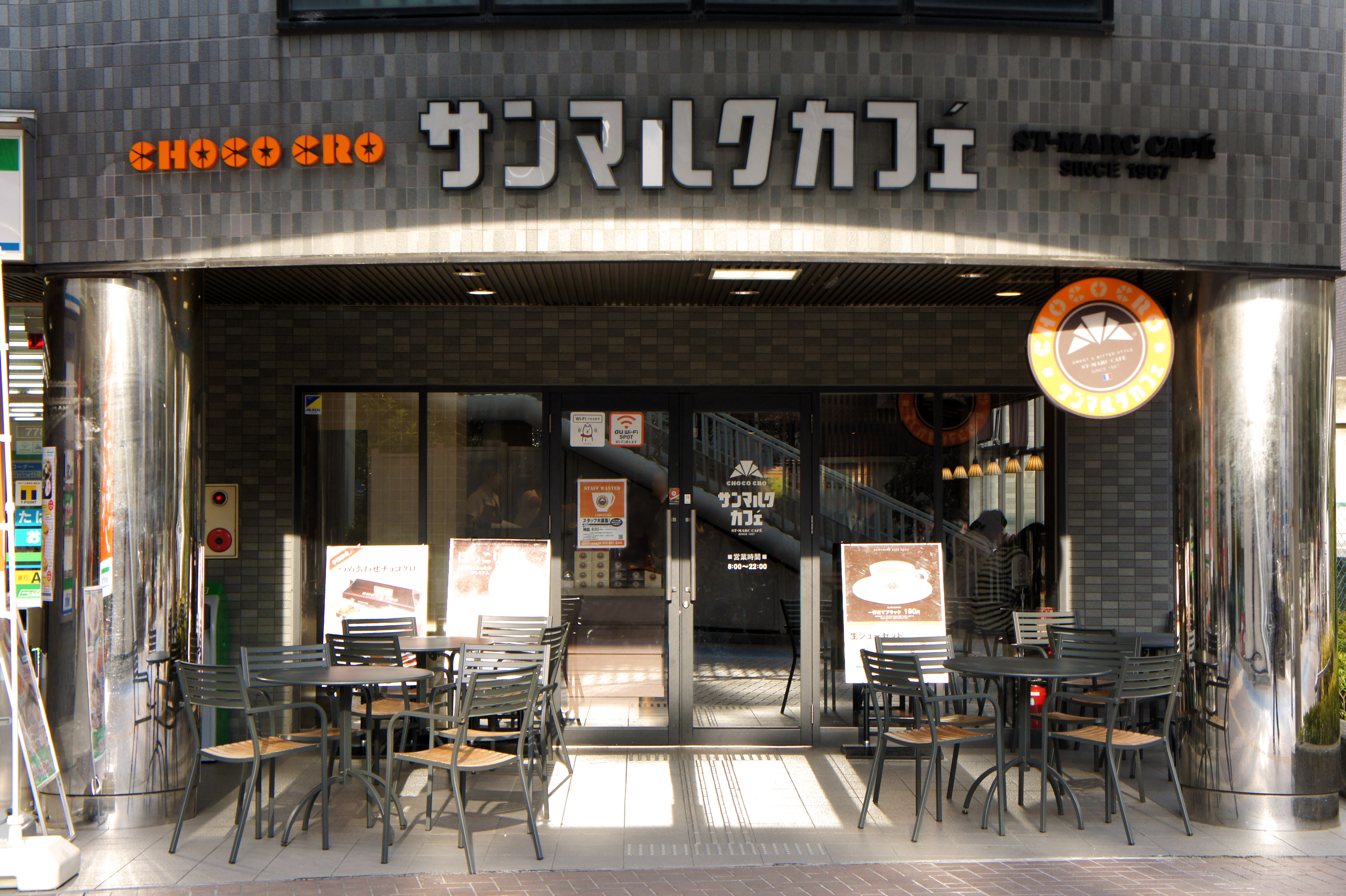 Saint Marc Cafe front of Osaka Hirakata city office Shop, 8-6 Okahigashicho Hirakata-City Osaka Japan.